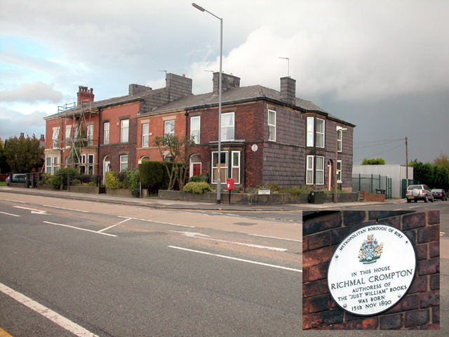 Birthplace of an author. The corner property in the Mount Sion district of Bury is the birthplace of Richmal Crompton. The house was built in the late 19th century at the junction of Hampson Mill Road and Manchester Road. Hampson Mill was a textile print works close to the River Roch and adjoining the mill was Hampson Flour Mill.